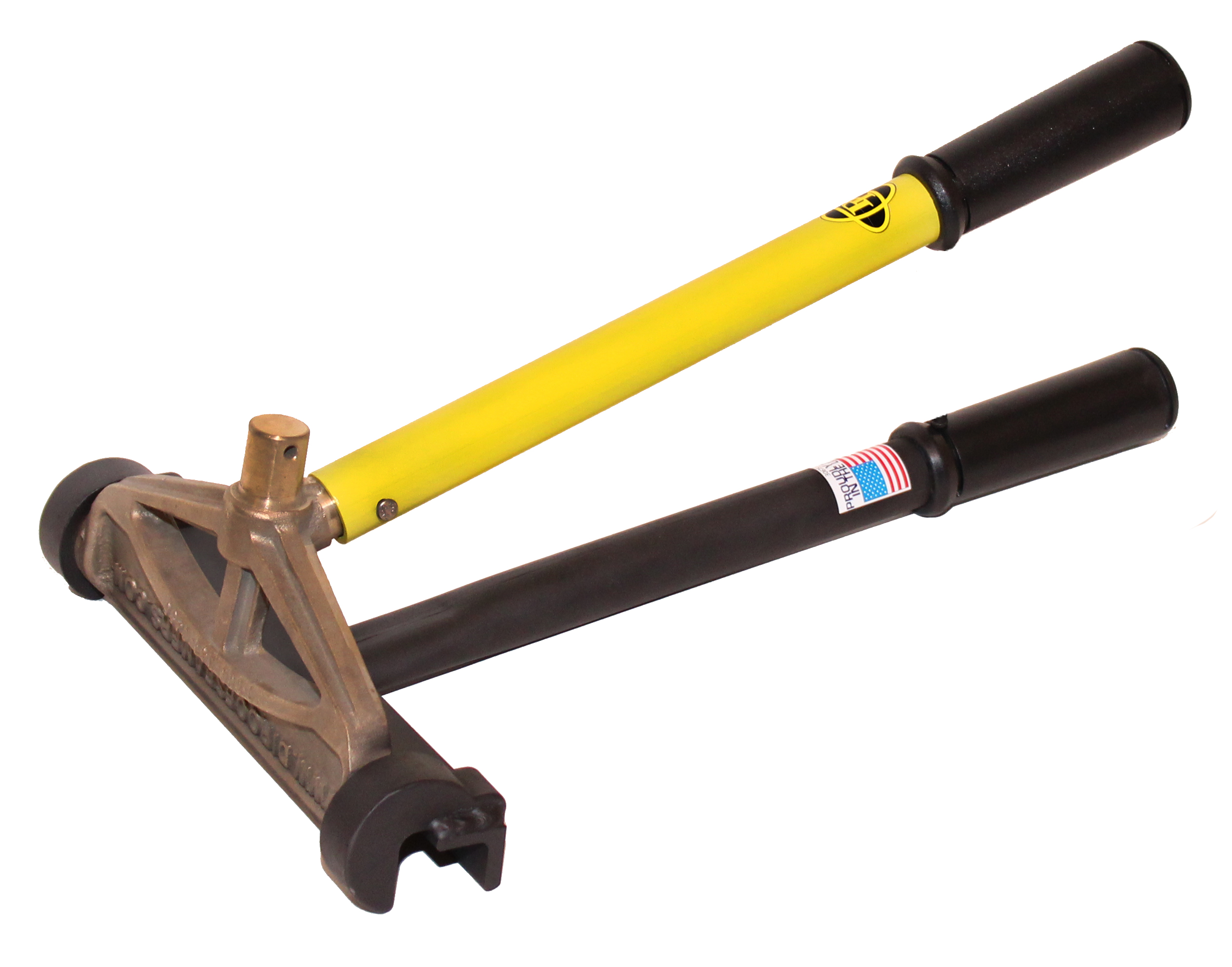 A hand crimping tool is commonly used in structural metal roofing to flat-form panel laps.